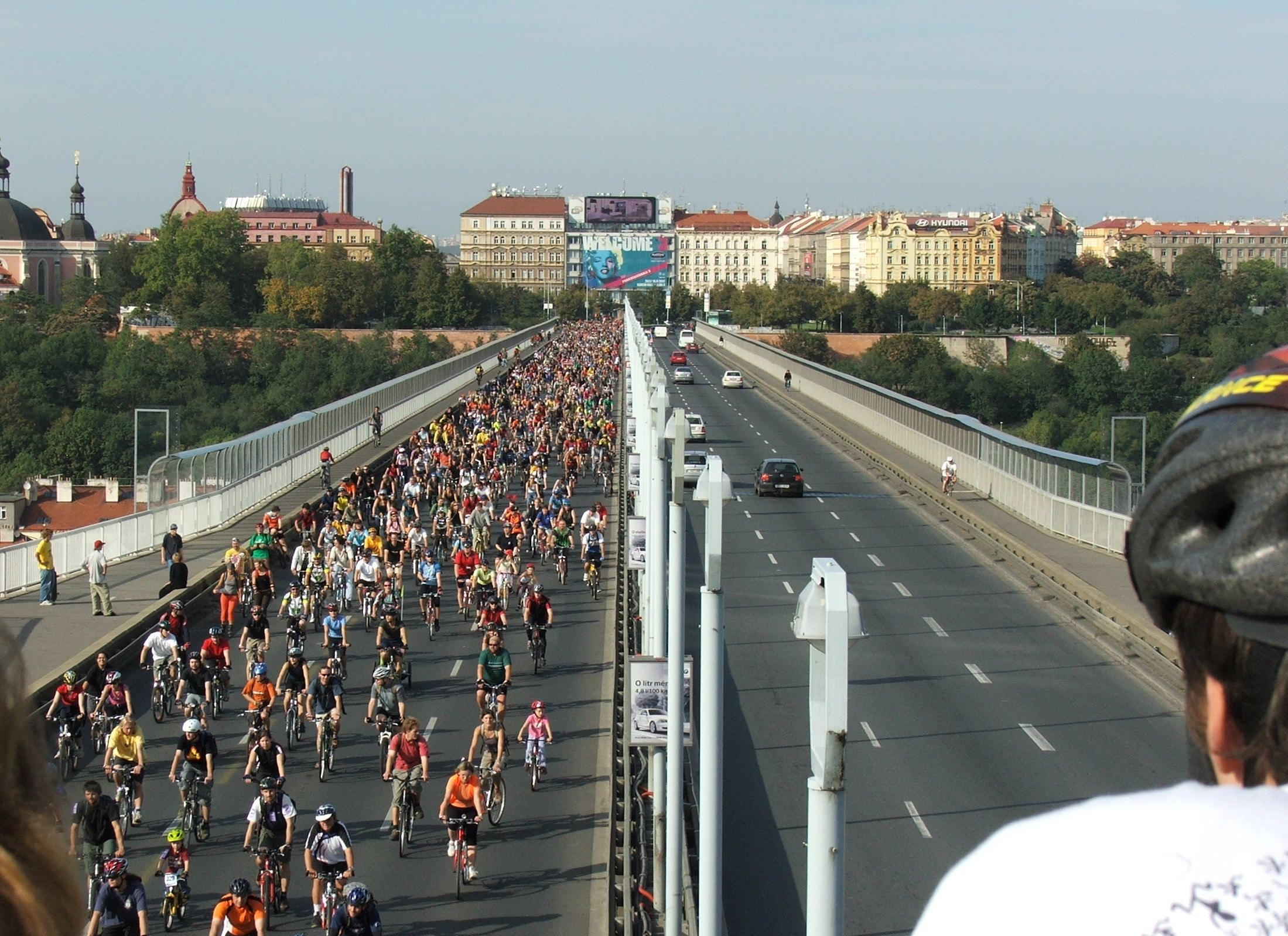 Prague Critical Mass on the bridge over Nusle, 22nd September 2007, Prague, Czechia.